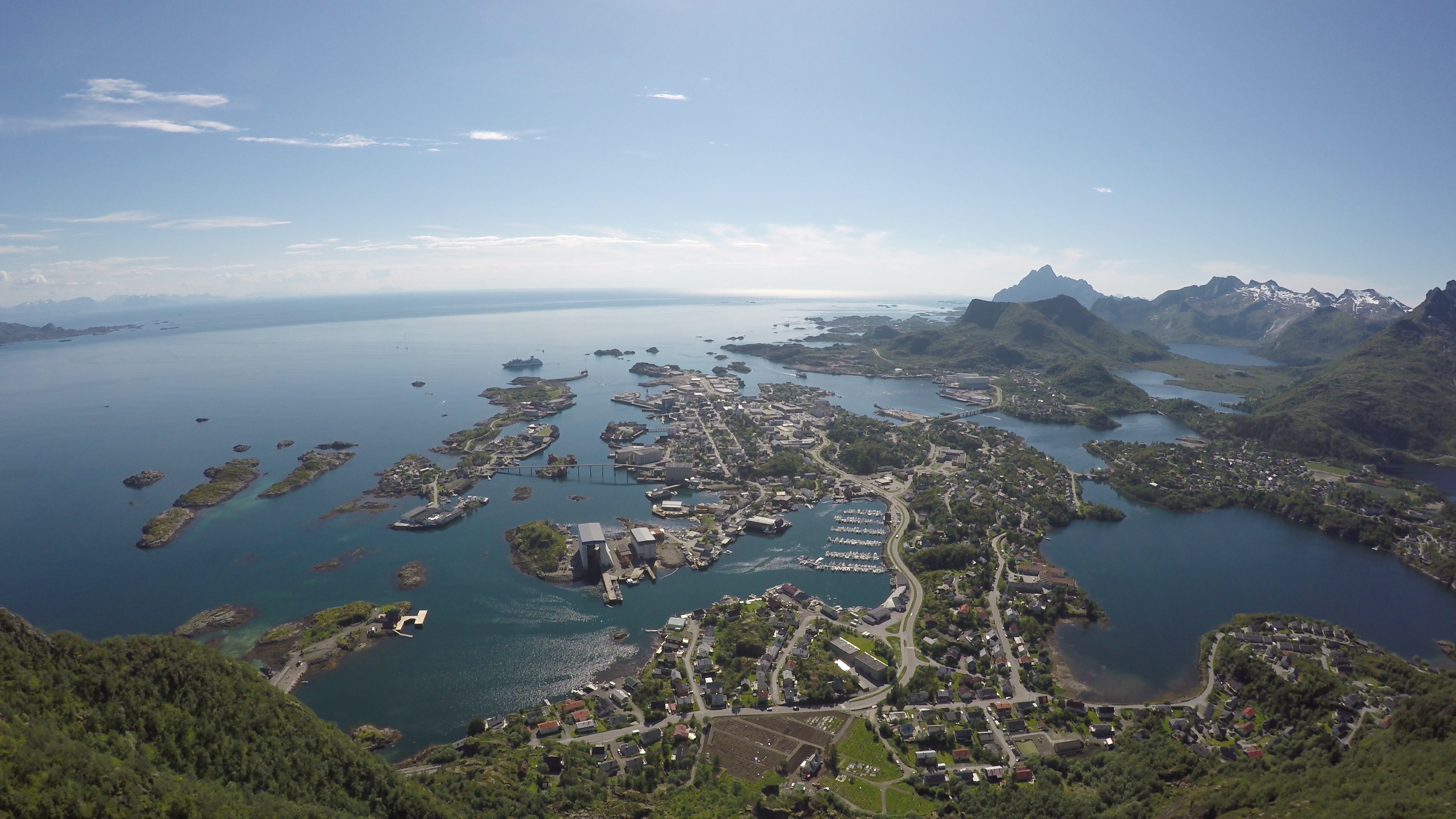 Svolvær seen from above Svolværgeita